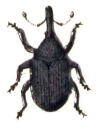 Baris artemisiae, from Calwer's Käferbuch, Table 33, Picture 20. Taxonomy was updated to 2008, using mostly the sites Fauna Europaea and BioLib. Please contact Sarefo if the determination is wrong!